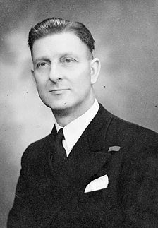 Half length portrait of Captain Dudley Mason, Master of the tanker SS Ohio